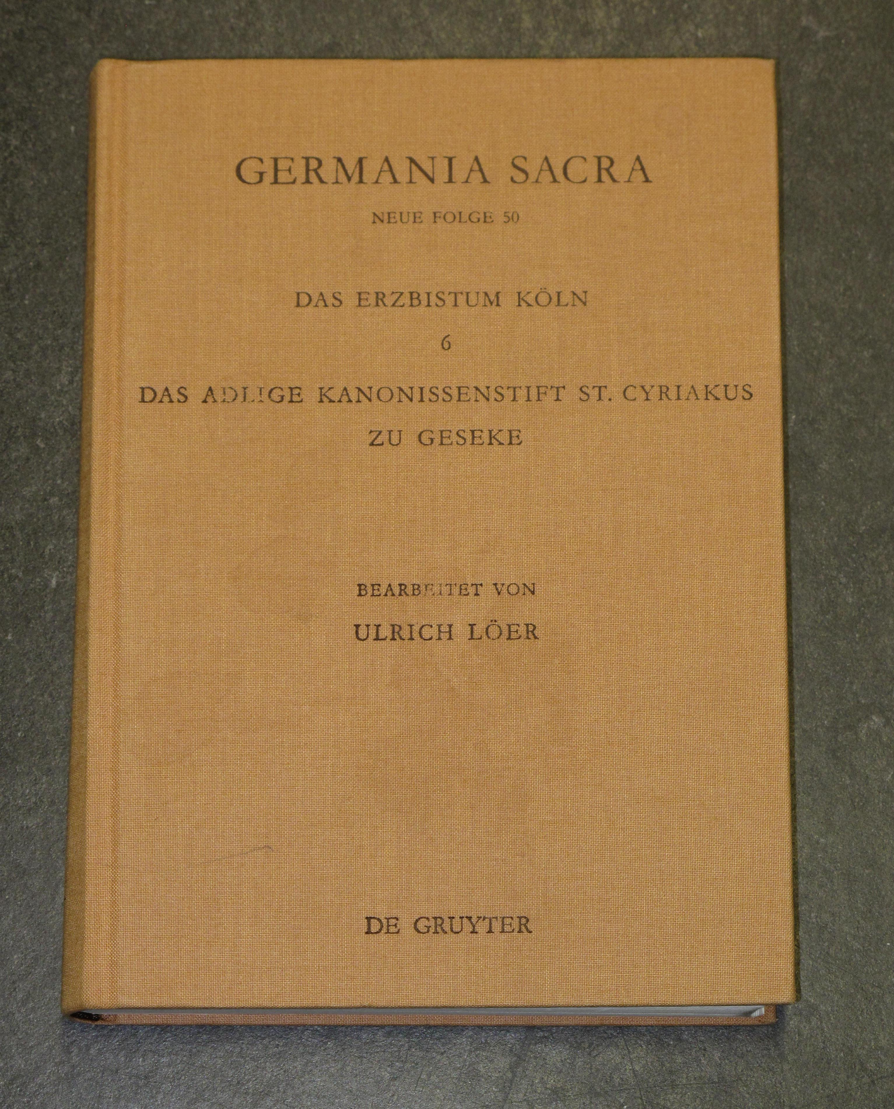 Ulrich Löer: Das Adlige Kanonissenstift St. Cyriakus zu Geseke. Germanica Sacra. Neue Folge 50. Das Erzbistum Köln 6. Berlin/New York 2007